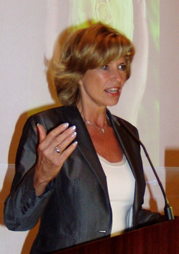 Dagmar G. Wöhrl (* 1954), german politician